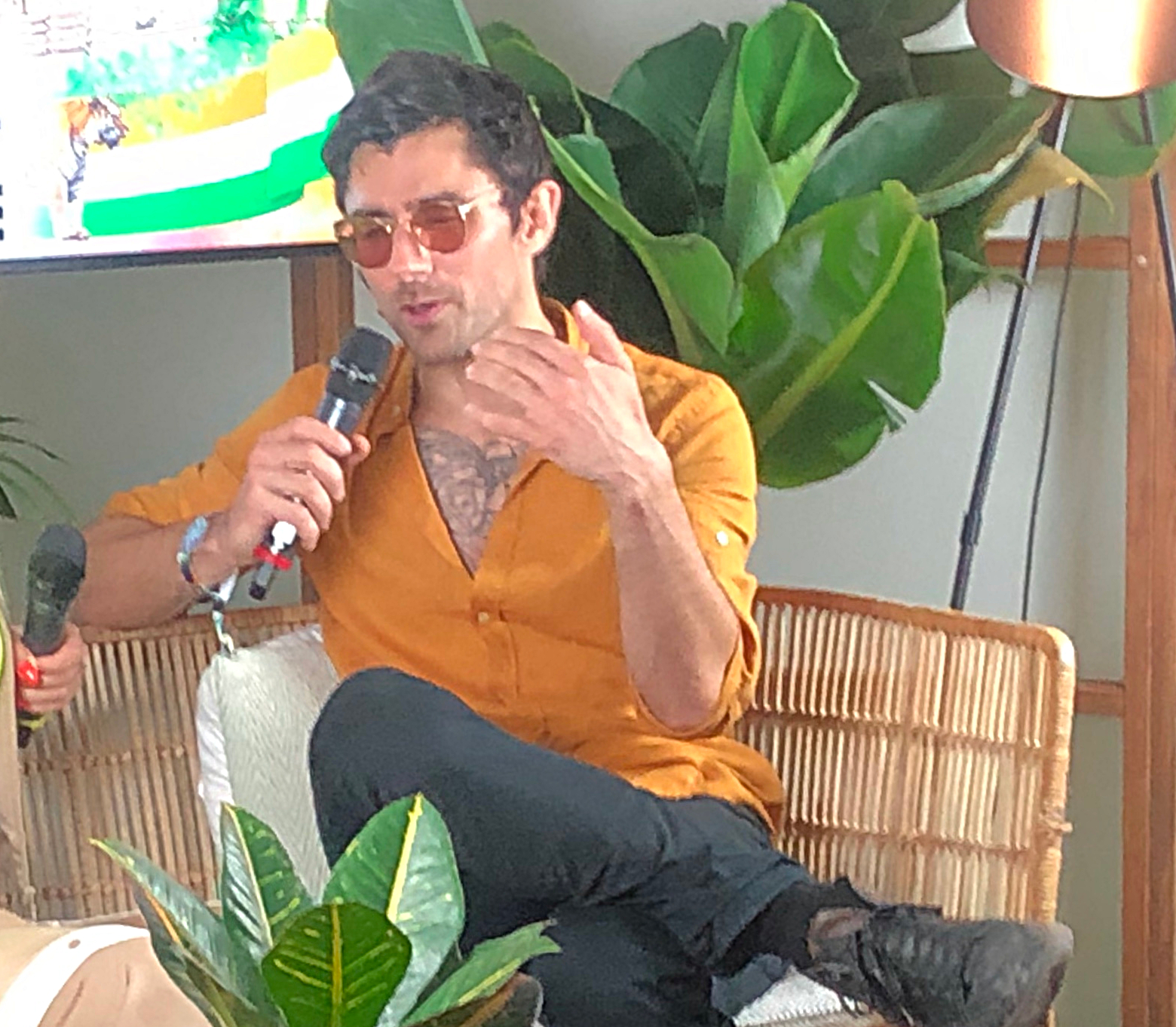 American dj and producer KSHMR at Airbeat One Festival 2019 in Neustadt-Glewe, Germany.